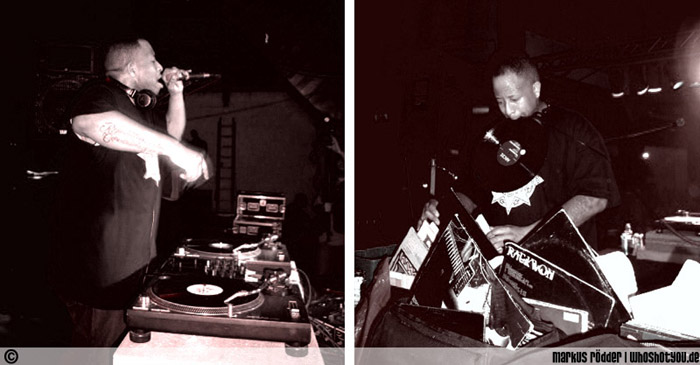 DJ Premier from Gang Starr